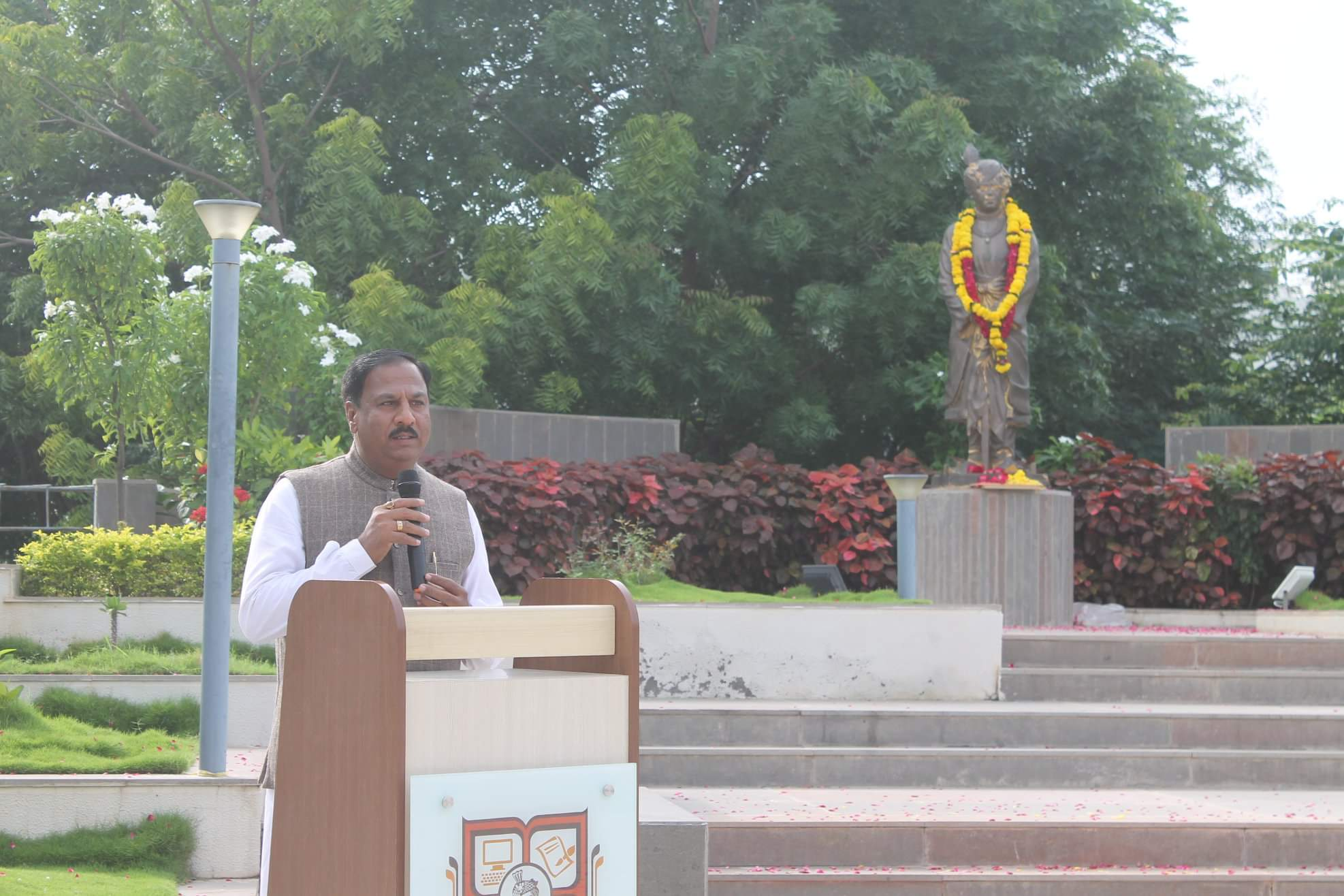 In photo-Dr Mahipatsinh Chavda giving speech during Independence day Celebration